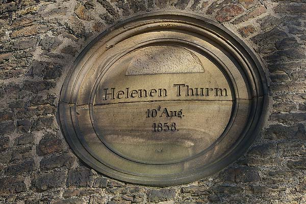 Witten, Helenenturm (Inschrift) This is a photograph of an architectural monument.